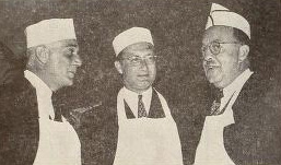 Samuel J. Briskin (center), along with Jack Cohn (right) at the 1939 Columbia Pictures convention in Atlantic City. Other information for an explanation of the copyright for information regarding public domain